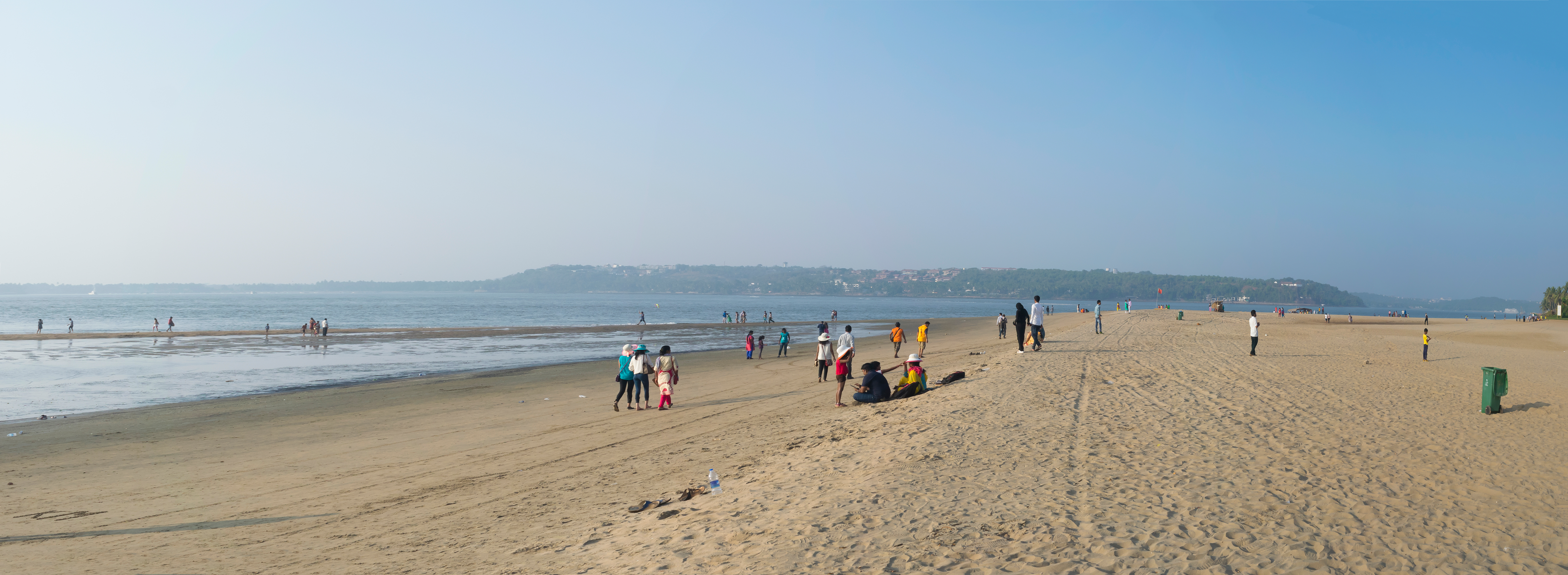 A panoramic view of Miramar beach